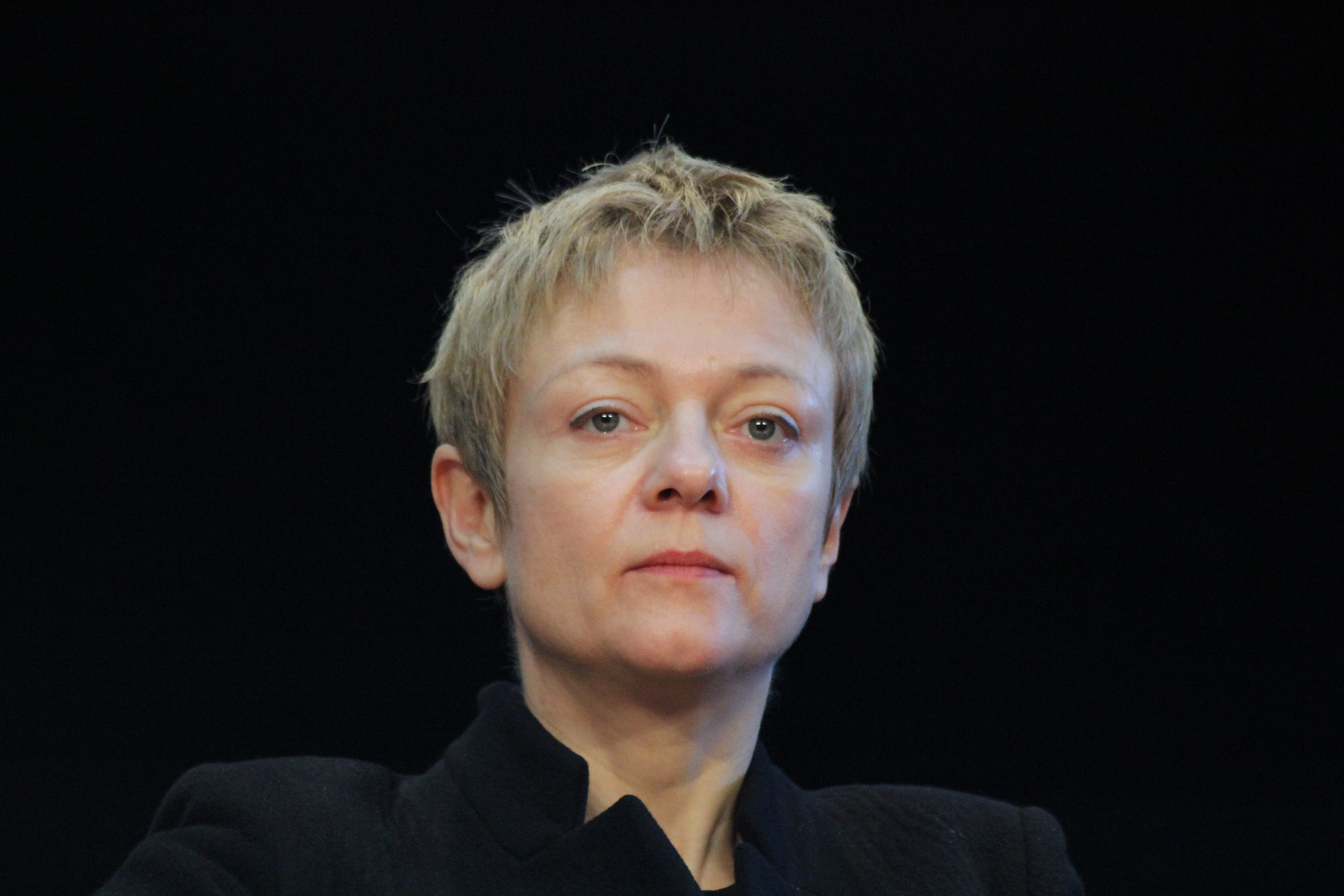 Catherine Dufour at the Utopiales 2014 in Nantes, France.